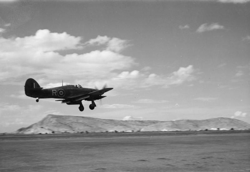 IWM caption : Hawker Hurricane Mark IV, LF498 ‘R’, of No. 6 Squadron RAF, coming in to land at Araxos, Greece.